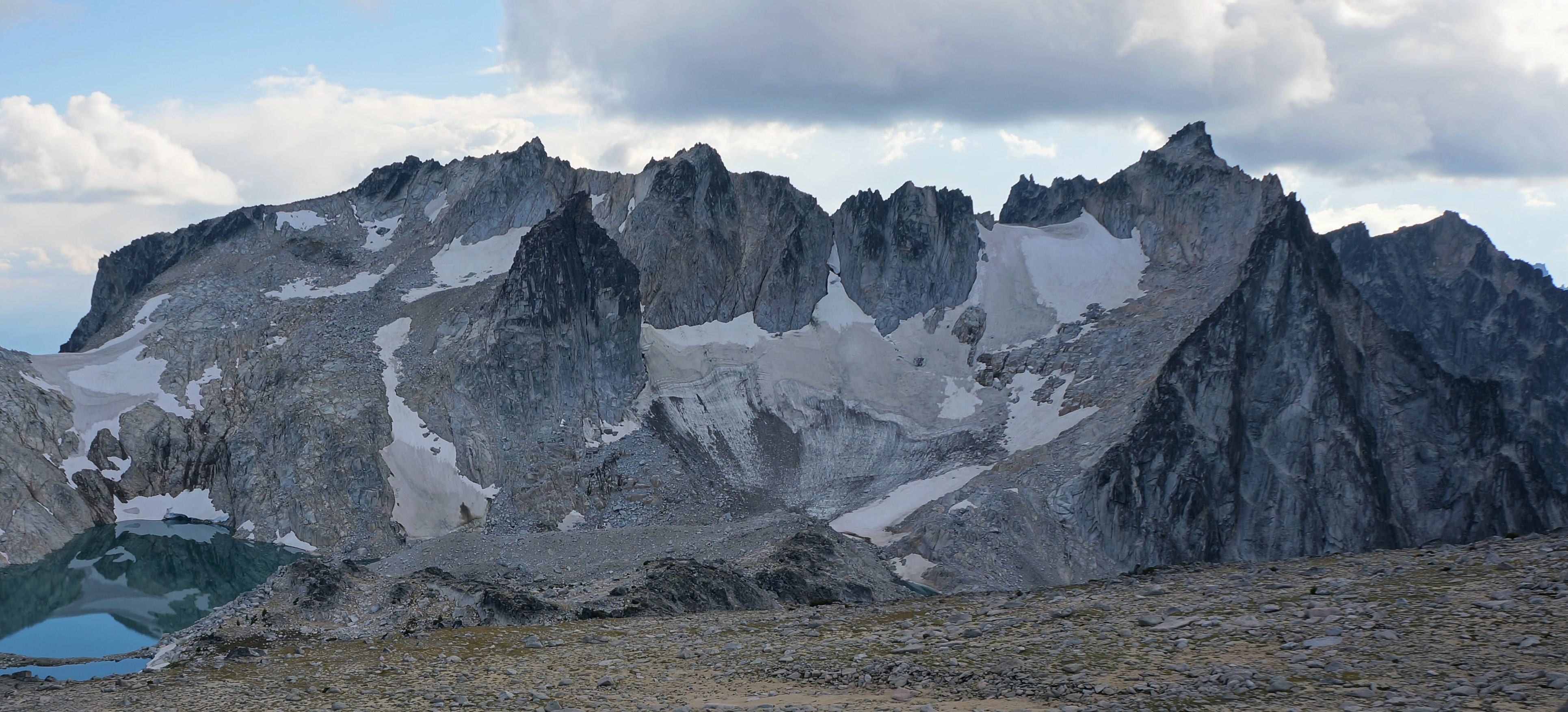 Dragontail Peak from northeast